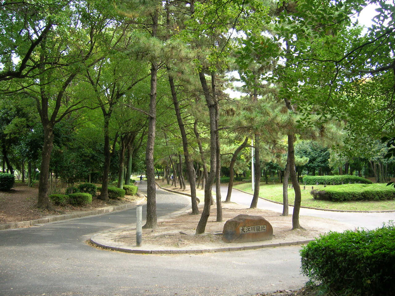 Õe-gawa Ryokuchi park. Loc: Nagoya city, Aichi Prefecture, Japan. 大江川緑地 撮影場所 愛知県名古屋市